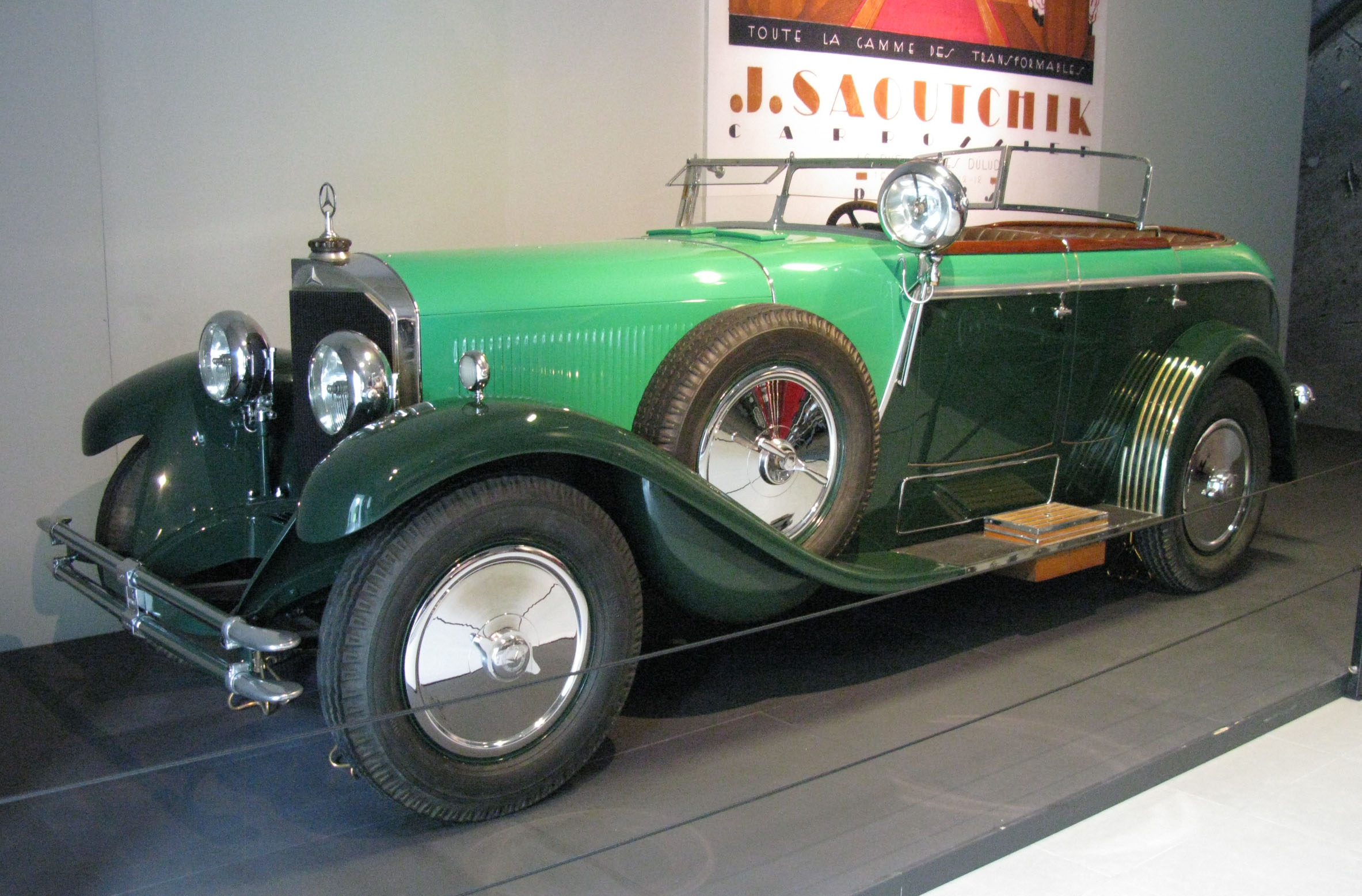 1926 Mercedes-Benz Modell K, torpedo body by Saoutchik.